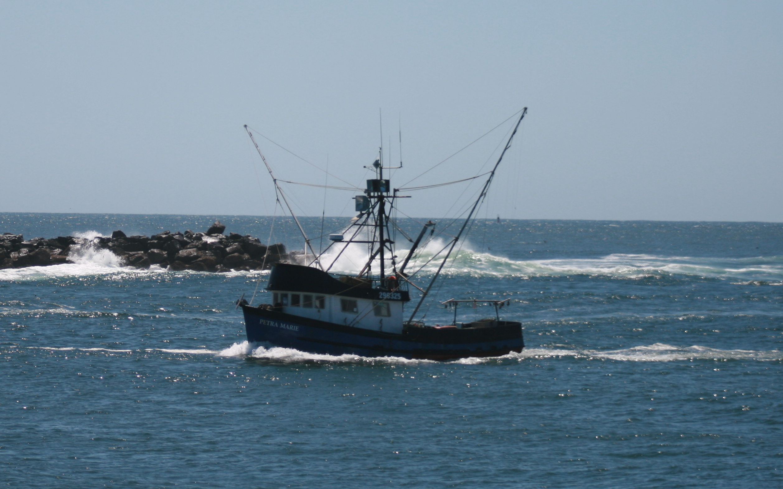 A commercial fishing boat, Petra Marie, entering Tillamook Bay through the jetties. That's the Blue Pacific Ocean in the background.